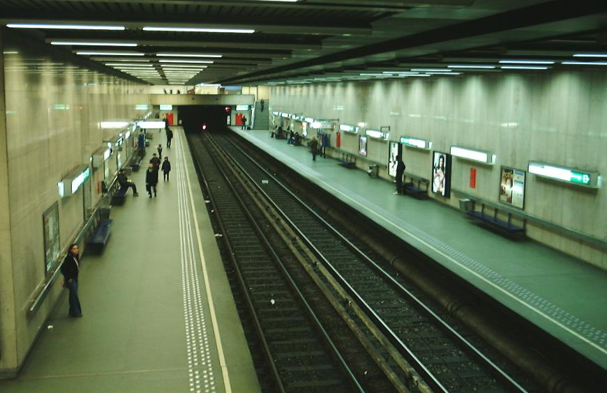 Platforms of Troon / Trône station, Brussels metro